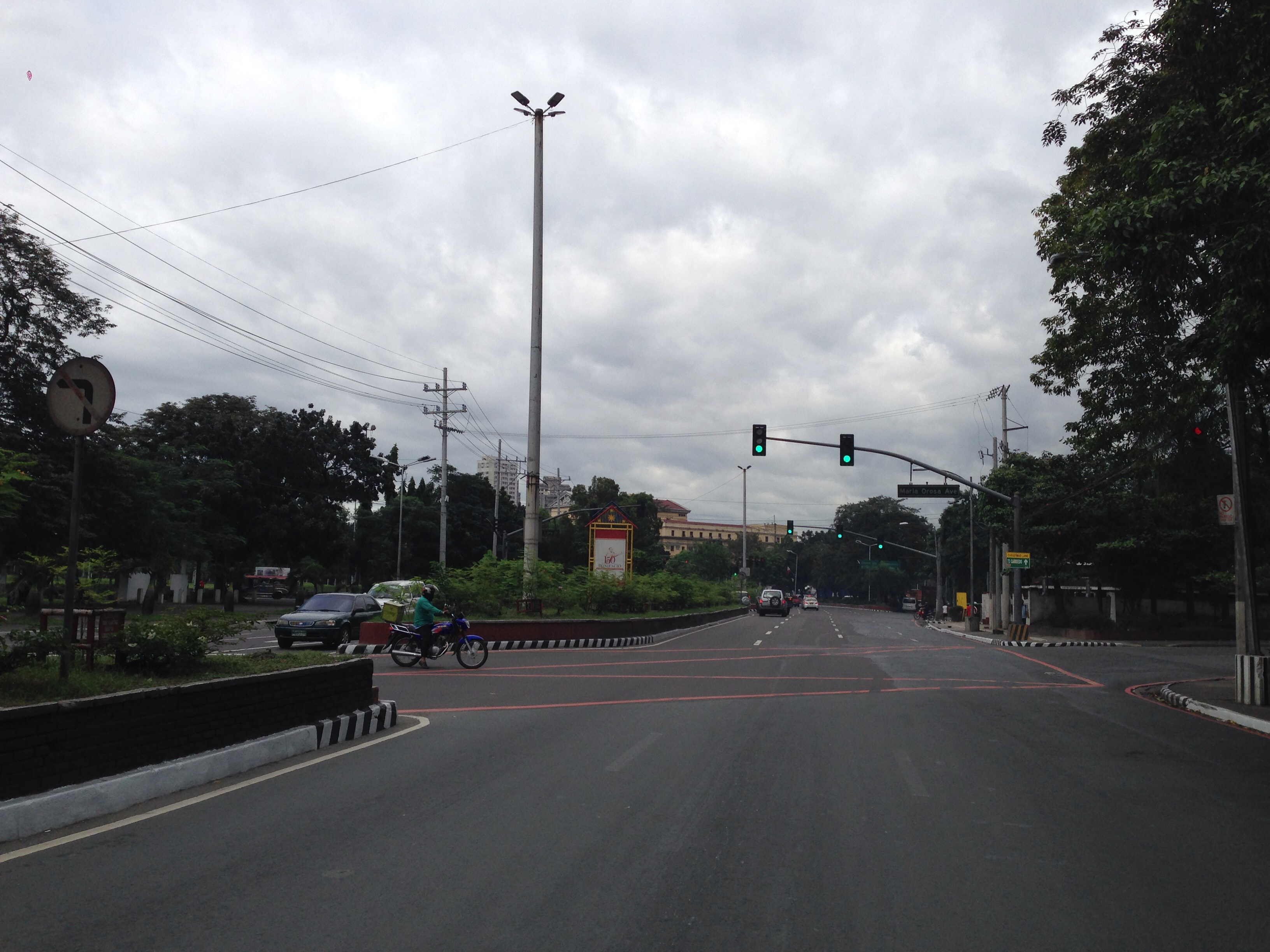 Padre Burgos Avenue looking east towards National Museum, Rizal Park, Ermita, Manila